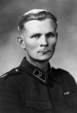 Knight of the Mannerheim Cross #141